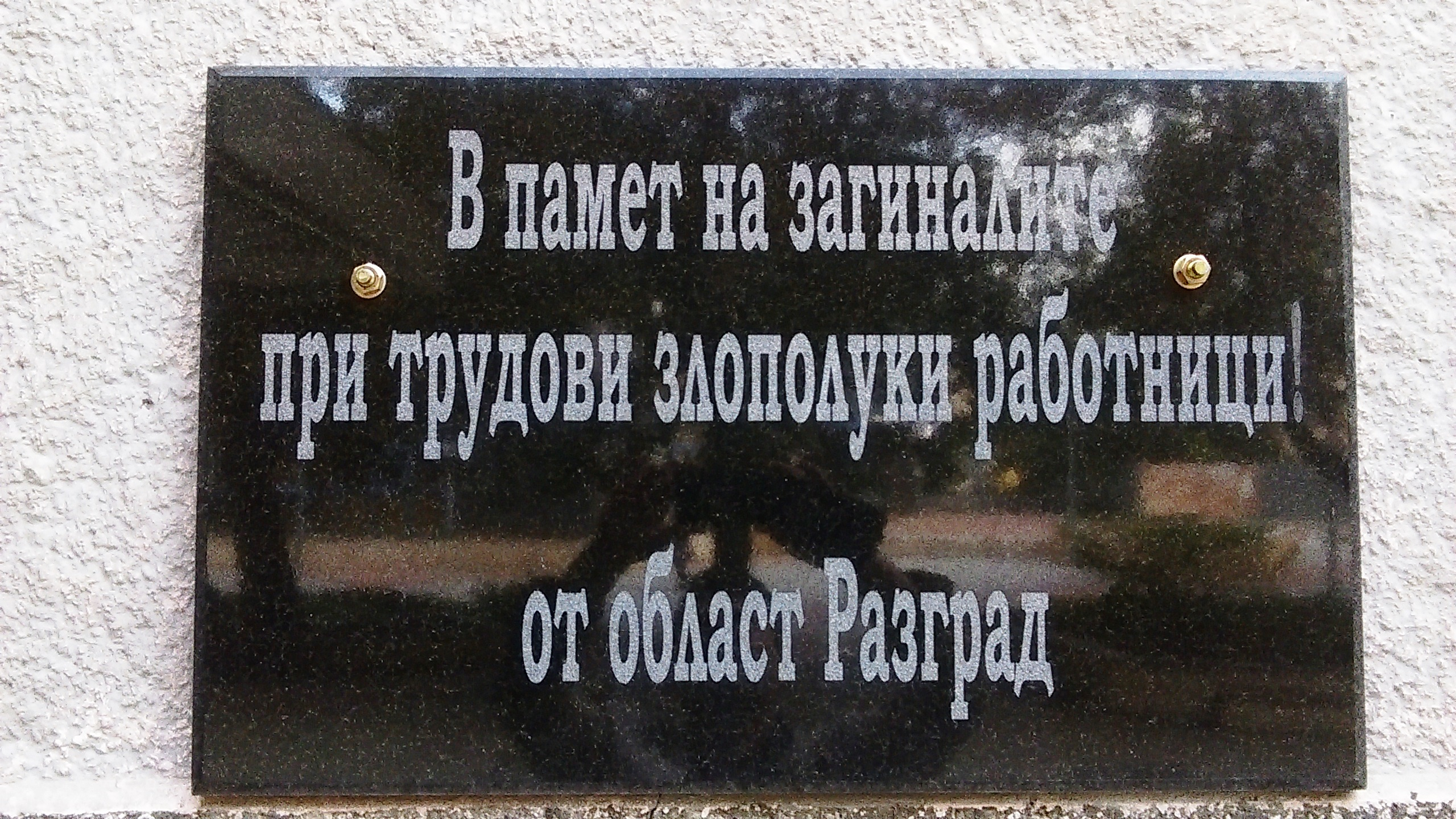 A memorial to people who suffered occupational injury, Razgrad, Bulgaria